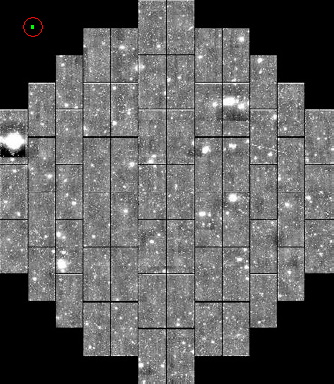 Simulated DES focal plane with iPhone ccd inset